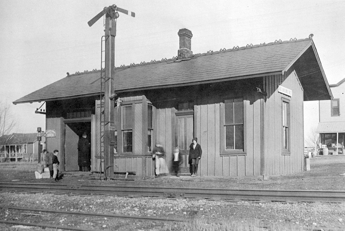 This photograph was taken looking nearly due north. The Hurlburt station of the Chicago & Erie Railroad Company was located at milepost 222.7 of the rail line. Seen at the far right of this image is what appears to be a general store.